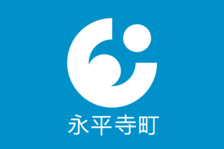 Flag of Eiheiji Fukuicharacter white version.gif